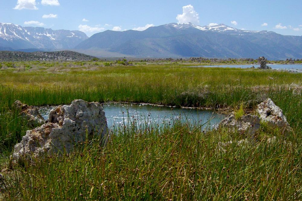 Image taken in June 2004 by Daniel Mayer.